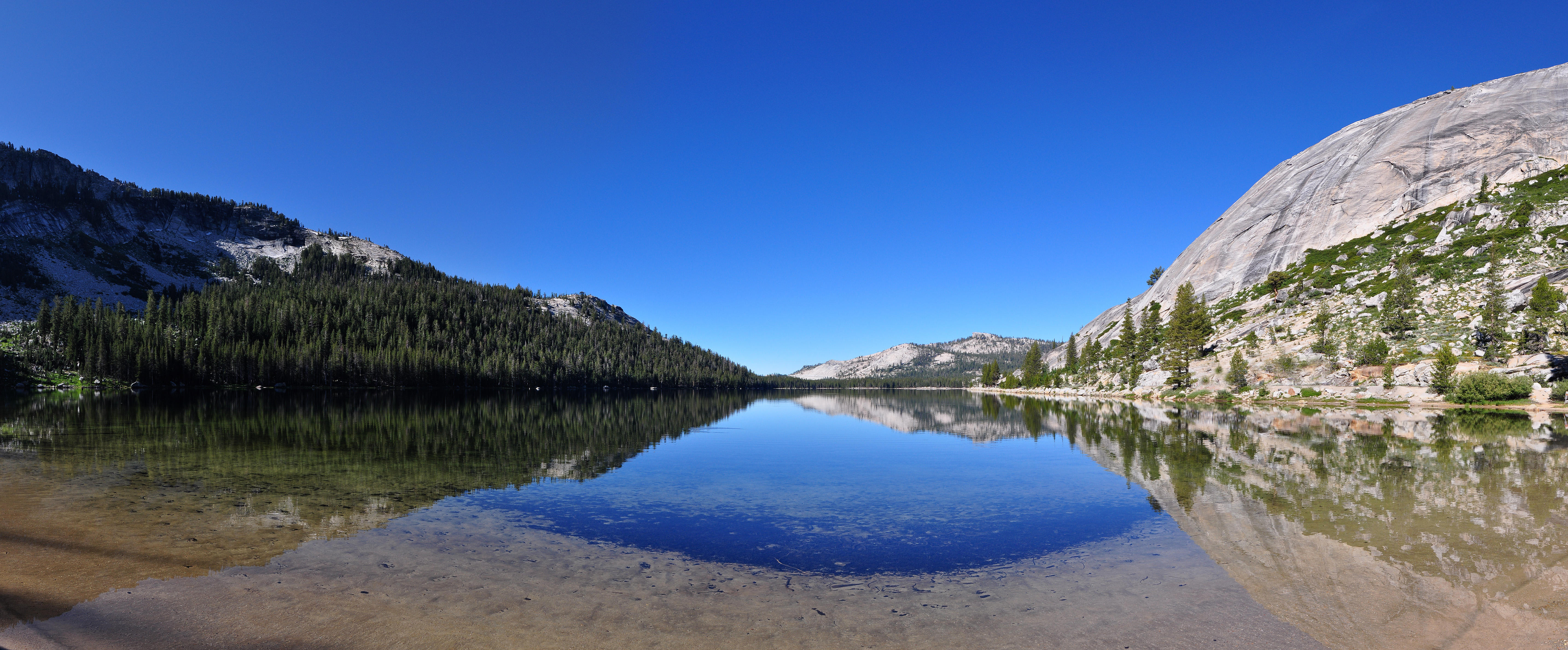 Panorama of Tenaya Lake - Mariposa County - California, USA.